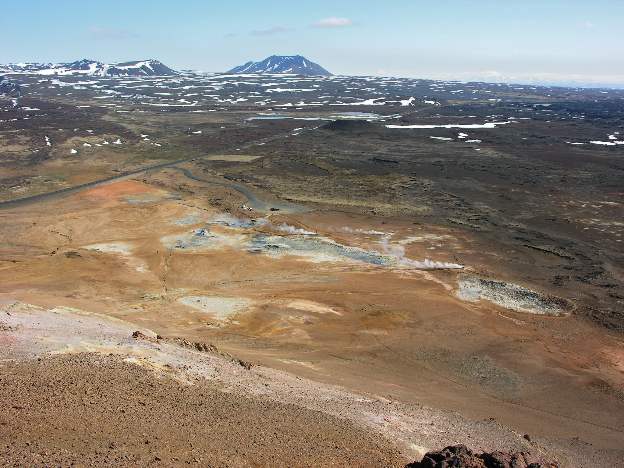 Iceland, hiking in the Námafjall geothermal area